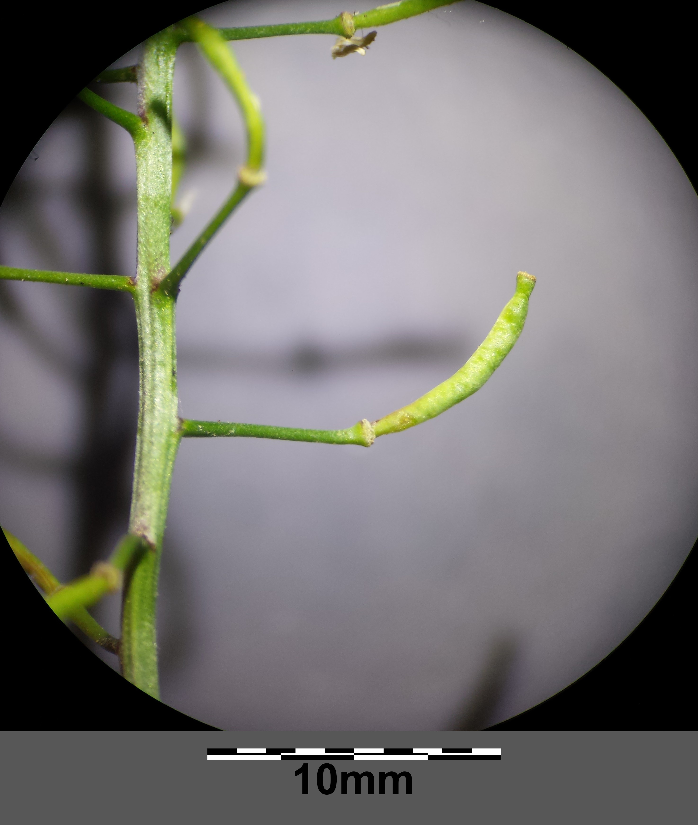 Fruit Taxonym: Rorippa sylvestris ss Fischer et al. EfÖLS 2008 ISBN 978-3-85474-187-9 Location: Jedleseer Friedhof, Vienna-Floridsdorf - ca. 160 m a.s.l. Habitat: grave